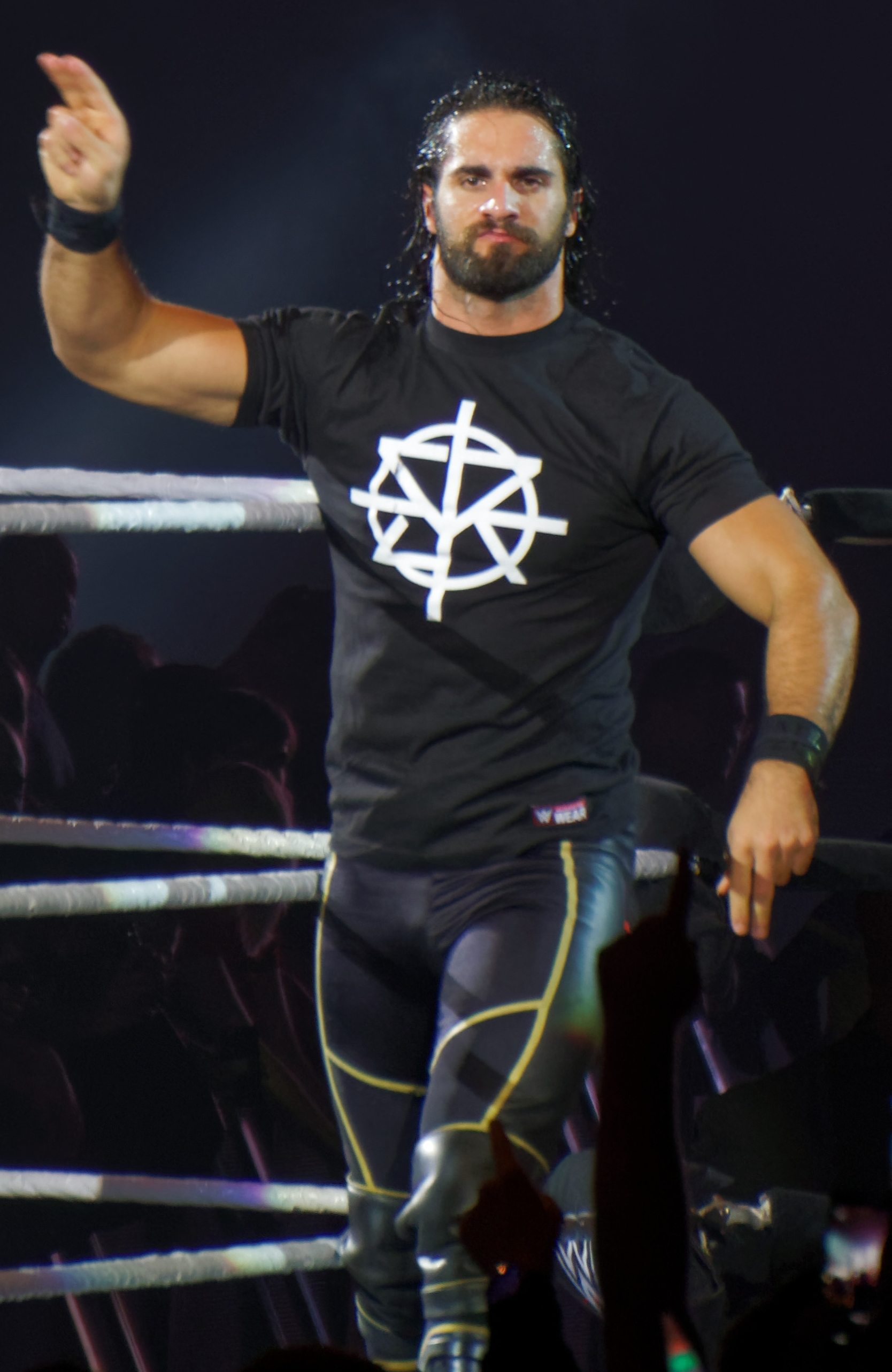 Seth Rollins in September 2016